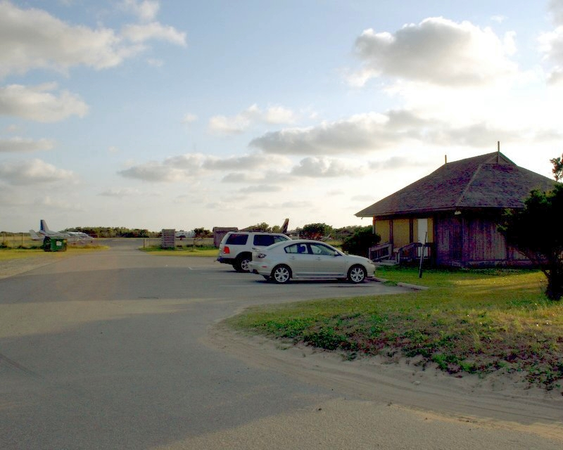 Ocracoke Island Airport (Ocracoke Island, Outer Banks, North Carolina, United States)